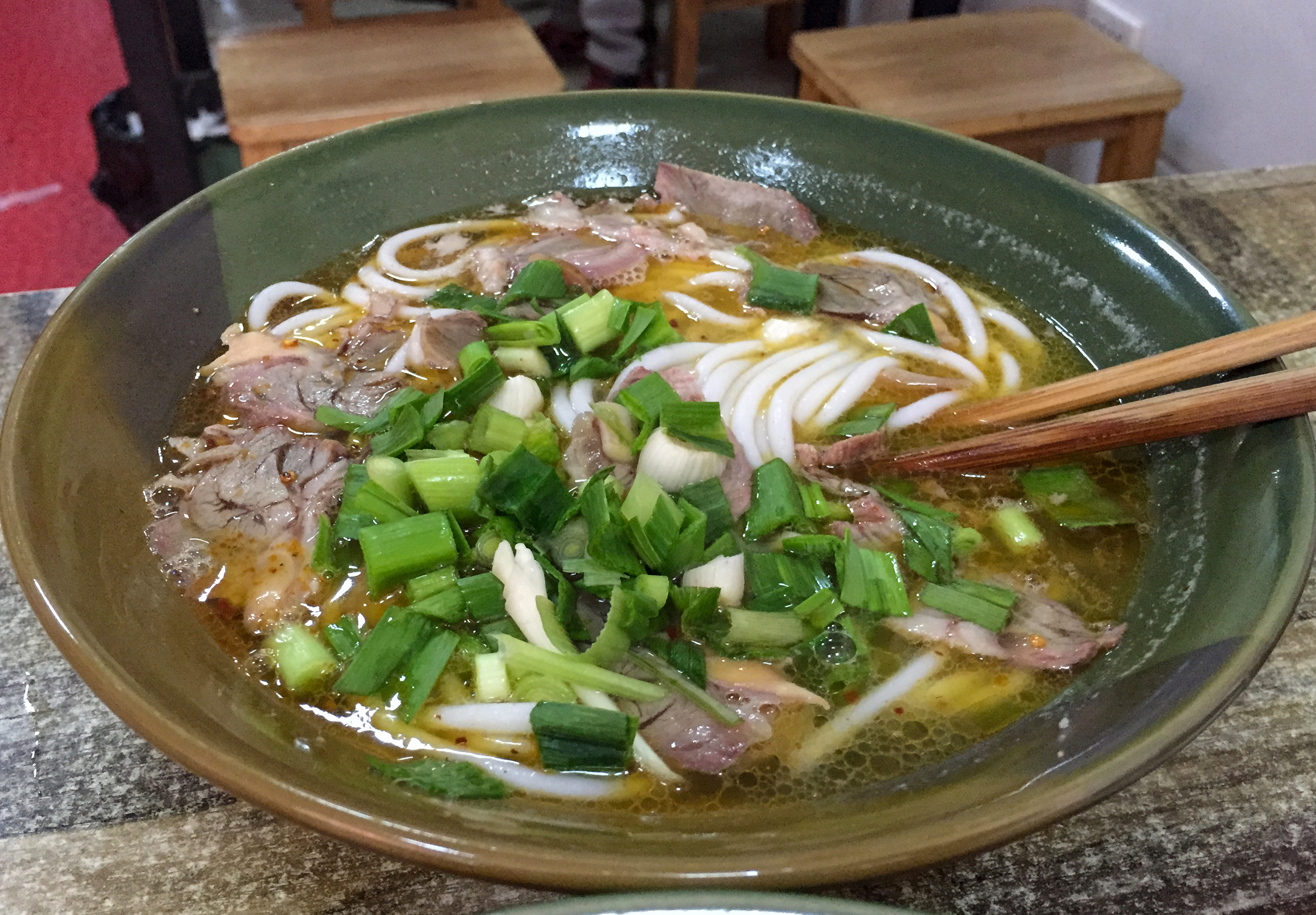 Served in a small bistro near the conference site. Thick rice noodles, mutton from black goats and some spice...